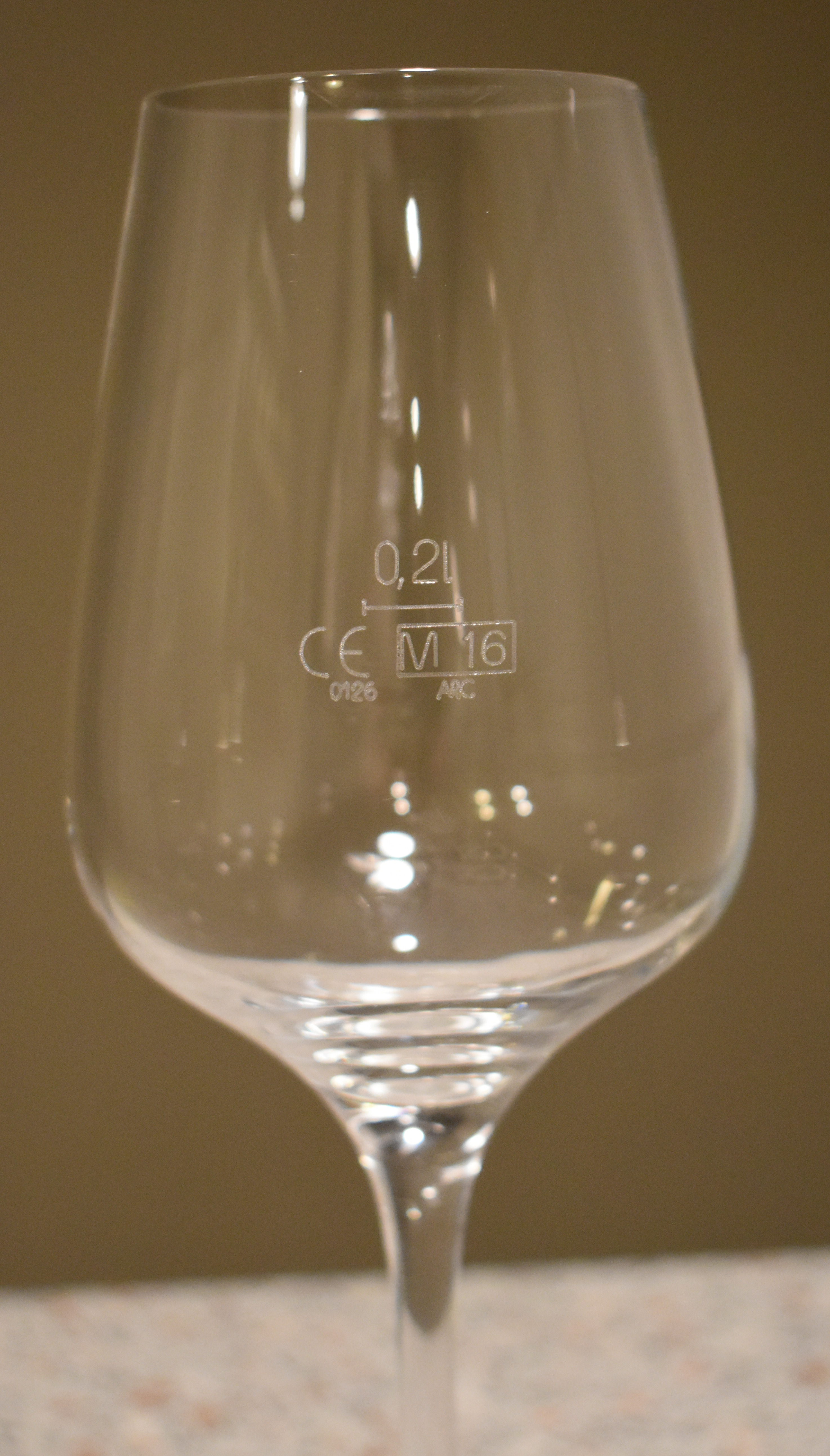 A wine glass with a fill line denoting the 0.2 liter mark.